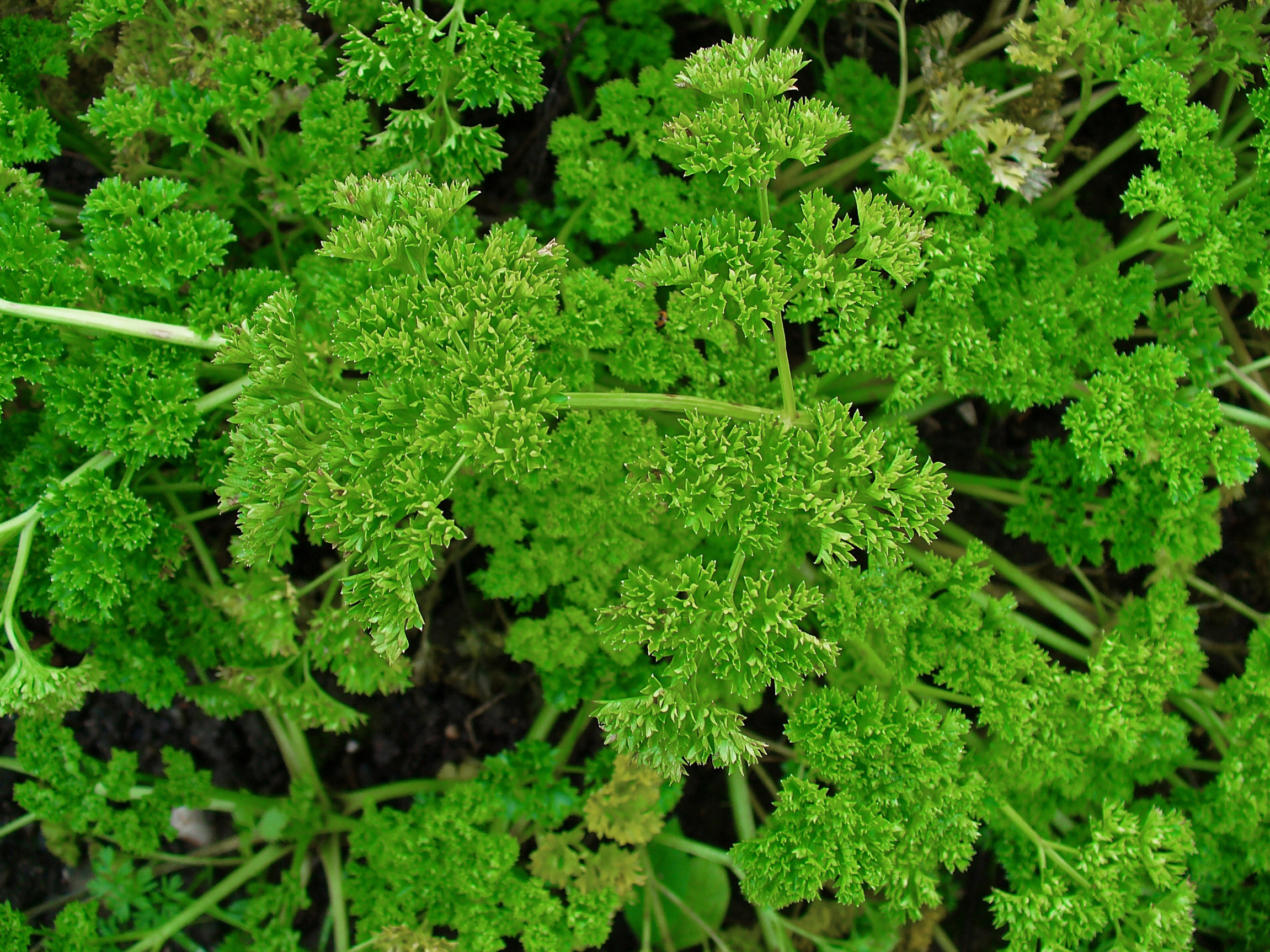 Petroselinum crispum, Parsley, leaves. Botanical Garden KIT, Karlsruhe, Germany.